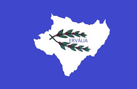 Flags of the city of Ervália, Minas Gerais, Brazil.